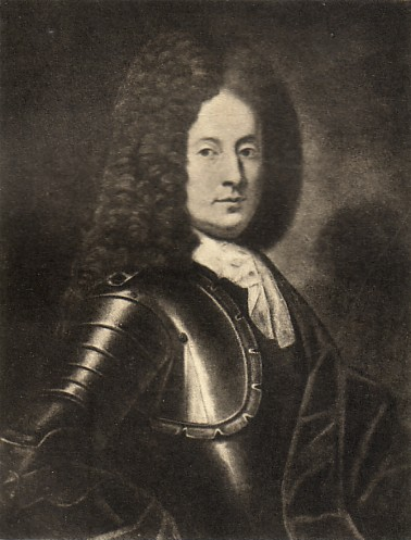 Admiral Ulrik Kaas